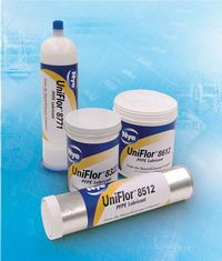 Nye products exemple - Uniflor lubricant